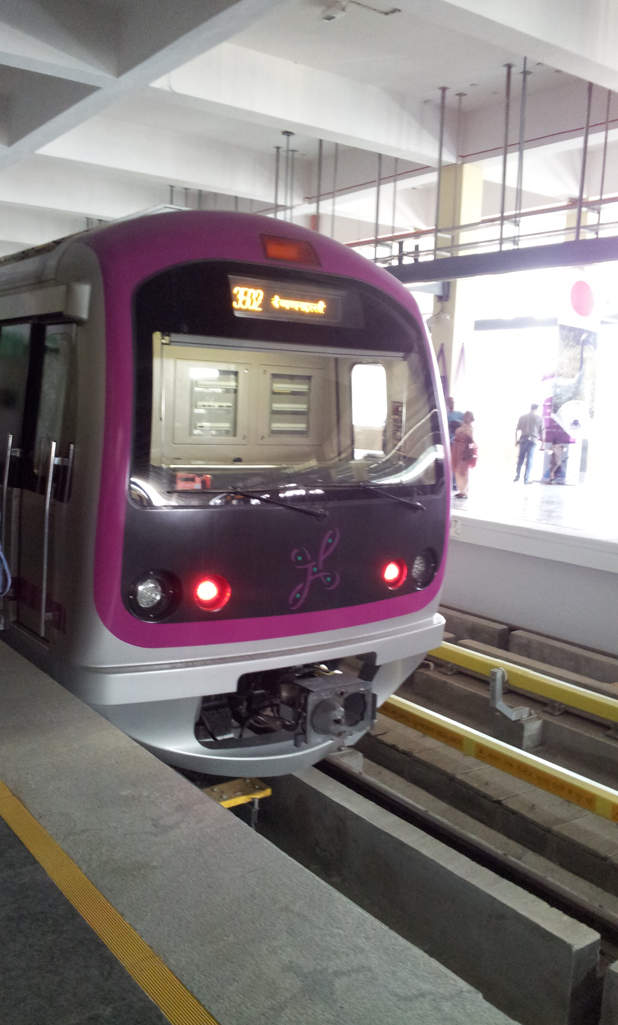 A Purple Line train pulls into Baiyappanahalli on the Namma (Bangalore) Metro.